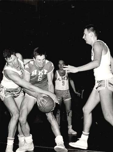 Left to right: Raimo Lindholm, Matti Liimo, Markku Torkkeli